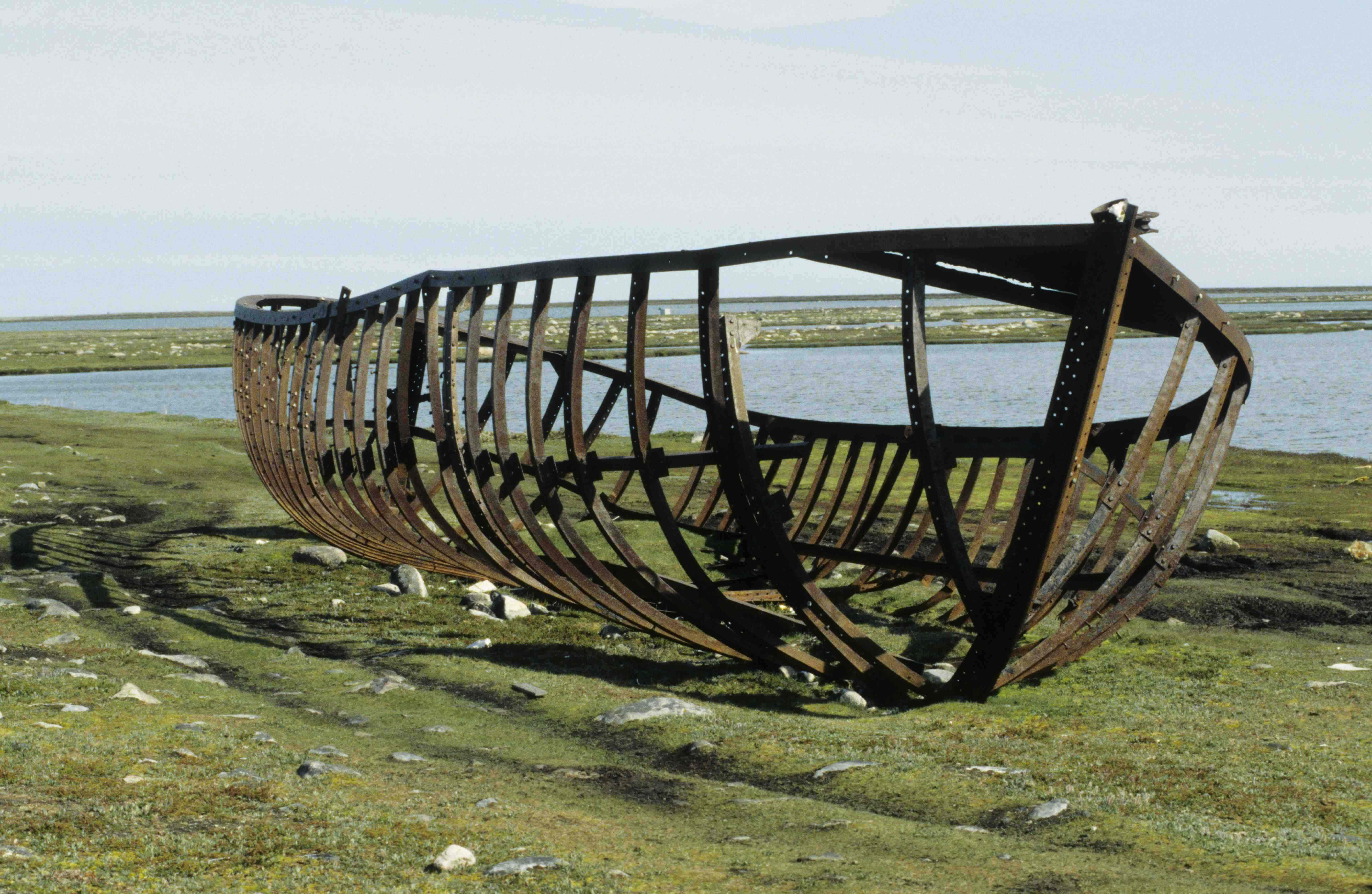 Iron frame of supply ship Qulaittuq (“boat without roof“), in the beginning of 1920s set on the beach near Arviat, Nunavut, Canada